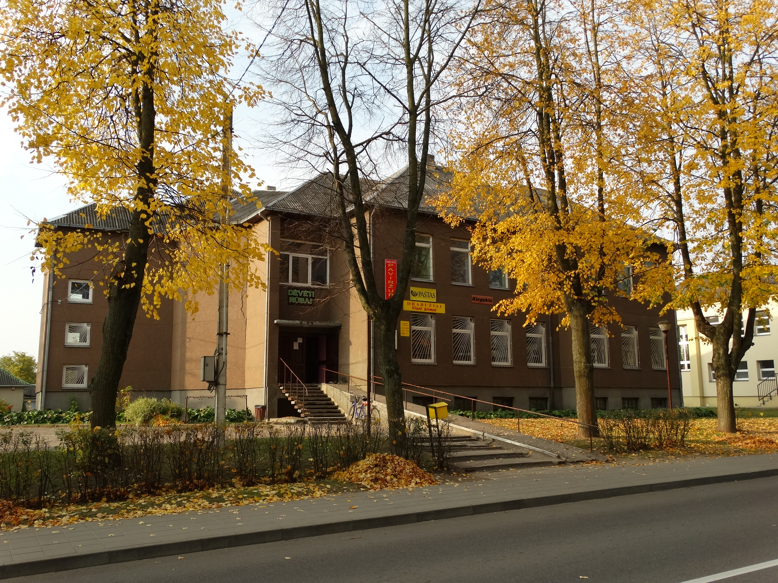 Post office, Virbalis, Vilkaviškis District, Lithuania